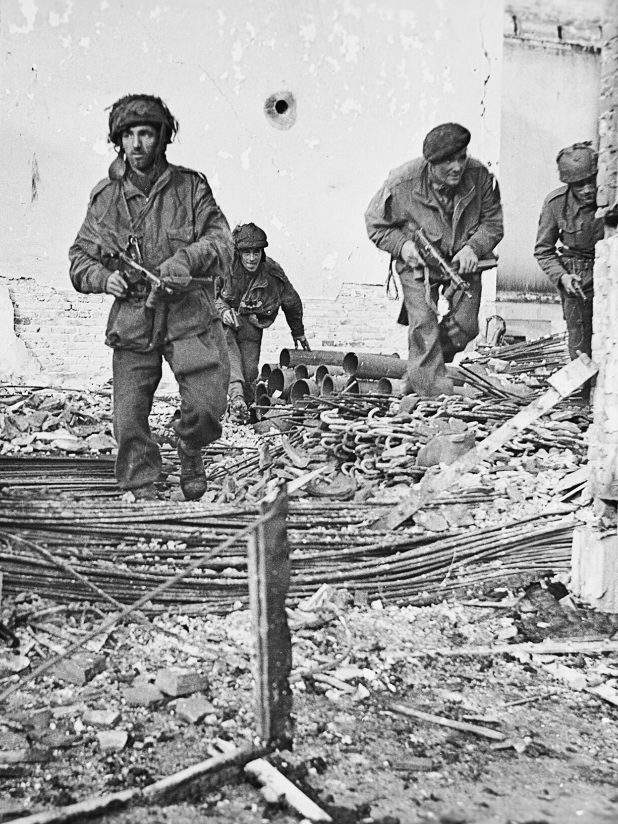 Four British paratroopers moving through a shell-damaged house in Oosterbeek to which they had retreated after being driven out of Arnhem Left to right Pvt Ronald Philip Walker Pvt John Dugdale 10pin C.co 156 Para L.Cpt Noel Rosenberg 10 pin C.co 156 Para Pvt Alfred J Ward HQ Para Brgd. Driver for Hackett